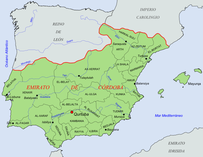 Provinces of the Emirate of Cordoba, by the end of of the Emirate (929)